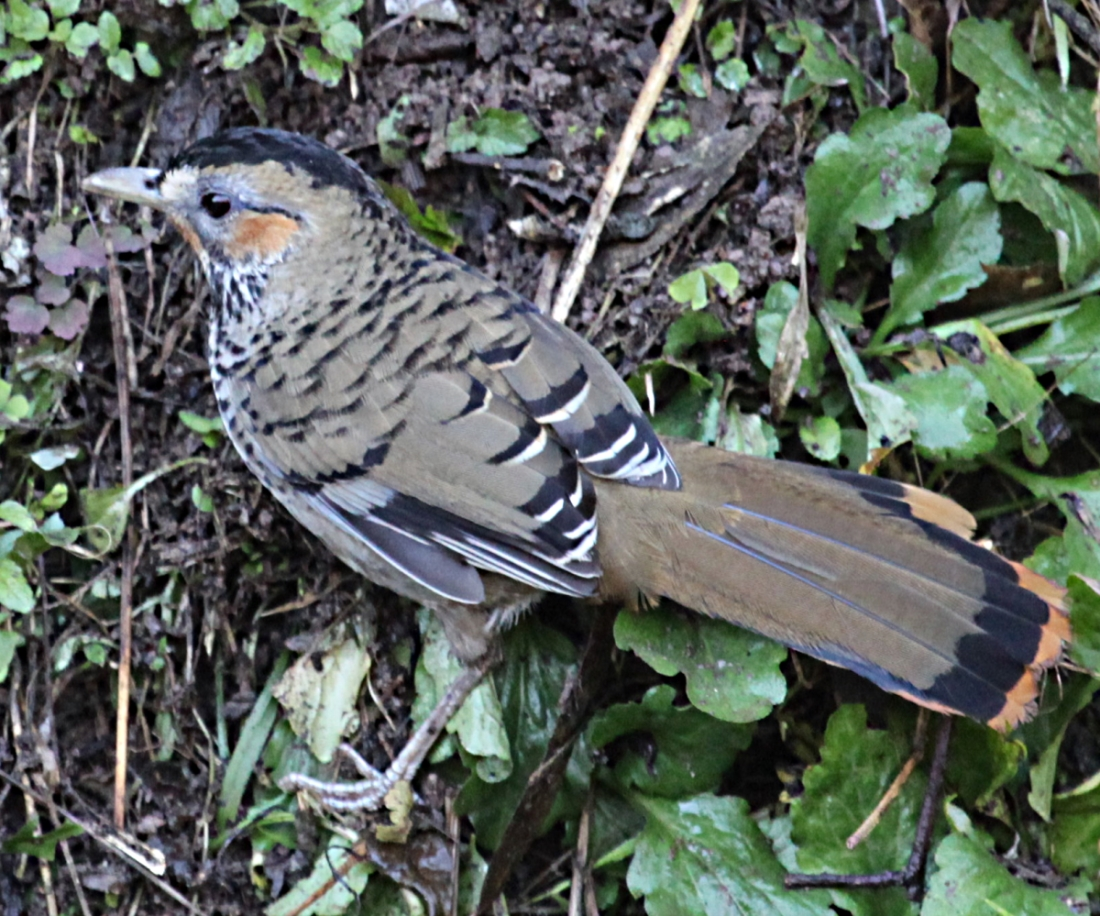 Rufous-chinned Laughingthrush